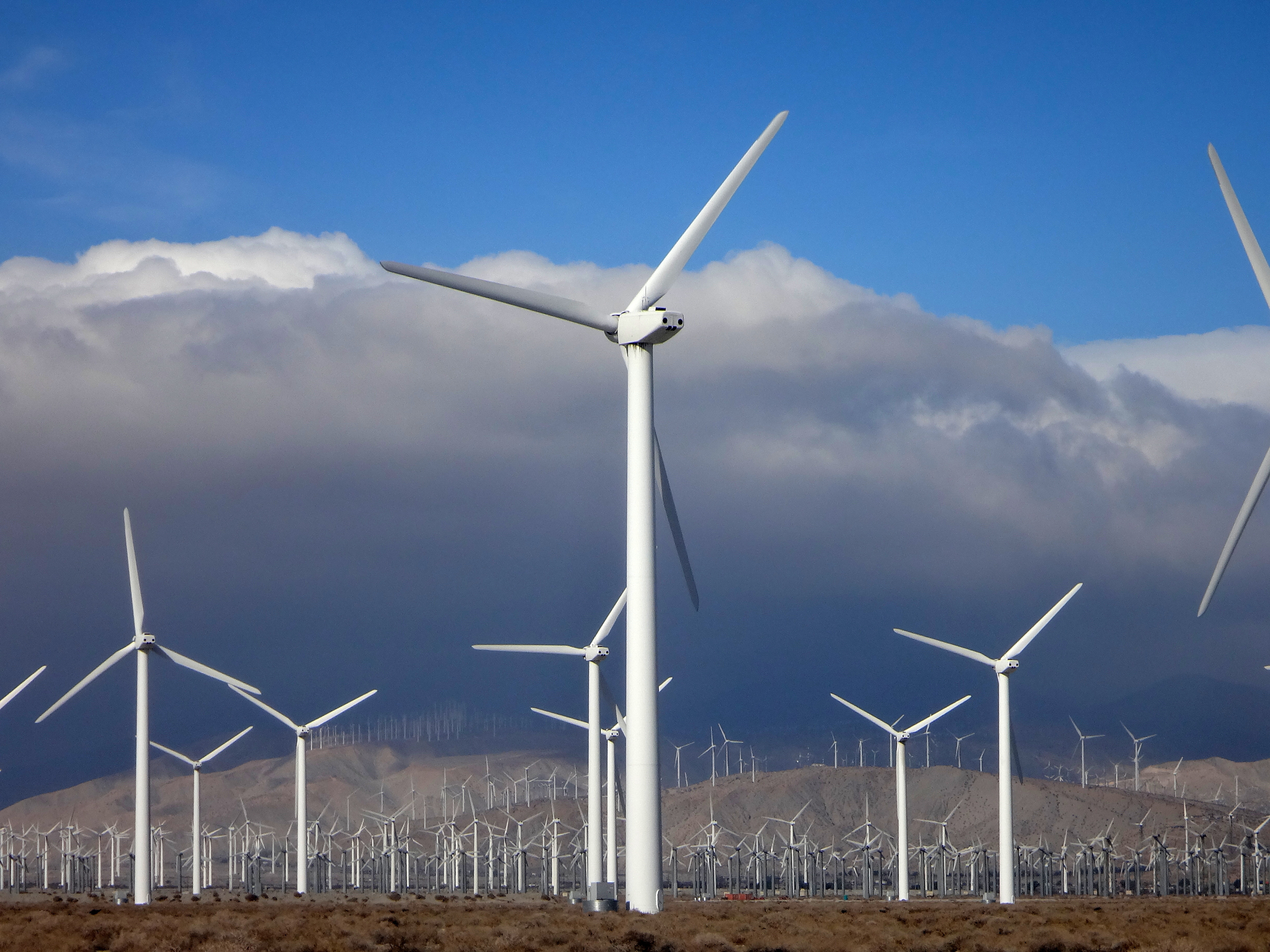 this famously windy slot between the san jacinto and san bernardino mountains is a perfect place for harvesting wind. no wonder this spot is covered with turbines of all kinds and ages. on a windy day such as this, it's fun to see all the turbines going at full speed (except for the broken ones), and i am always wondering how much of the wind's energy this really extracts. it cannot be much, given the windy area and the size of the turbines.